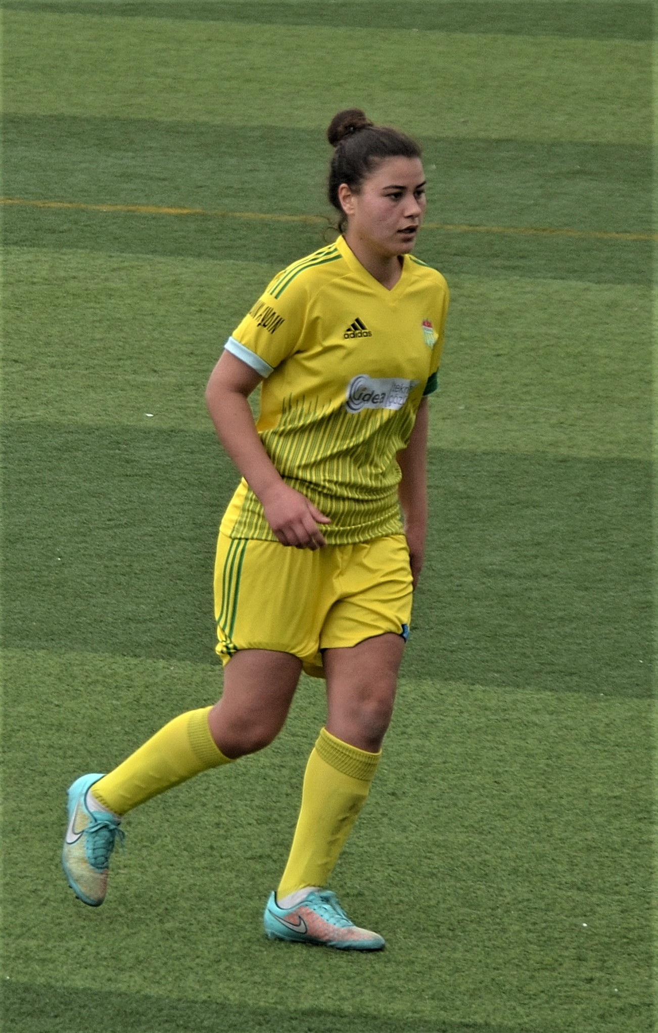 Gül Eroğlu playing for Kireçburnu Spor in the 2015-16 Turkish Women's First League.